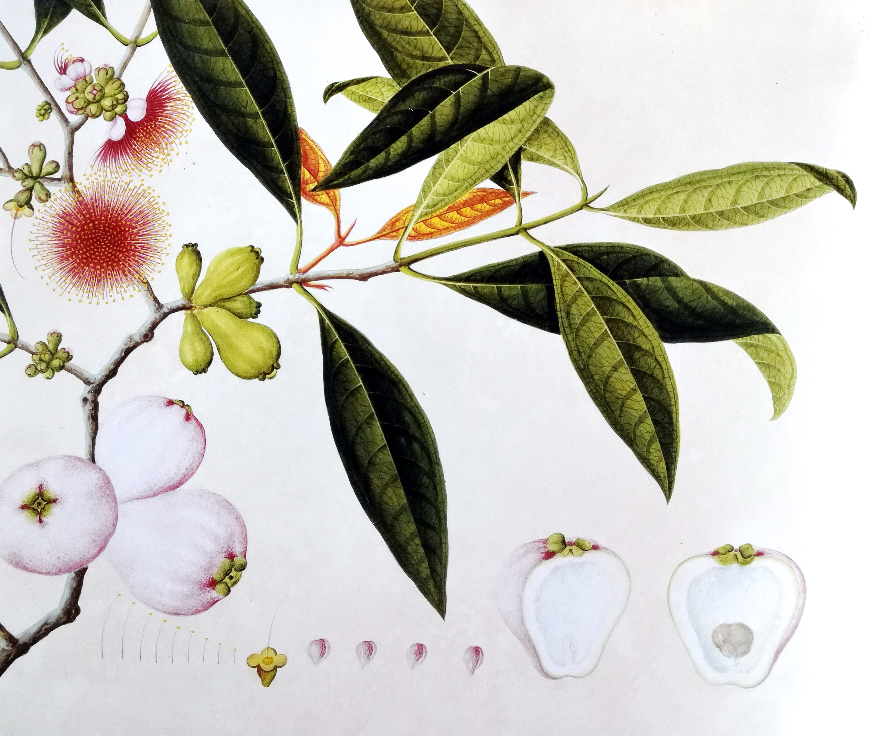 Botanical illustration of Syzygium malaccense (L.) Merr. & L.M.Perry - Malay Rose Plum